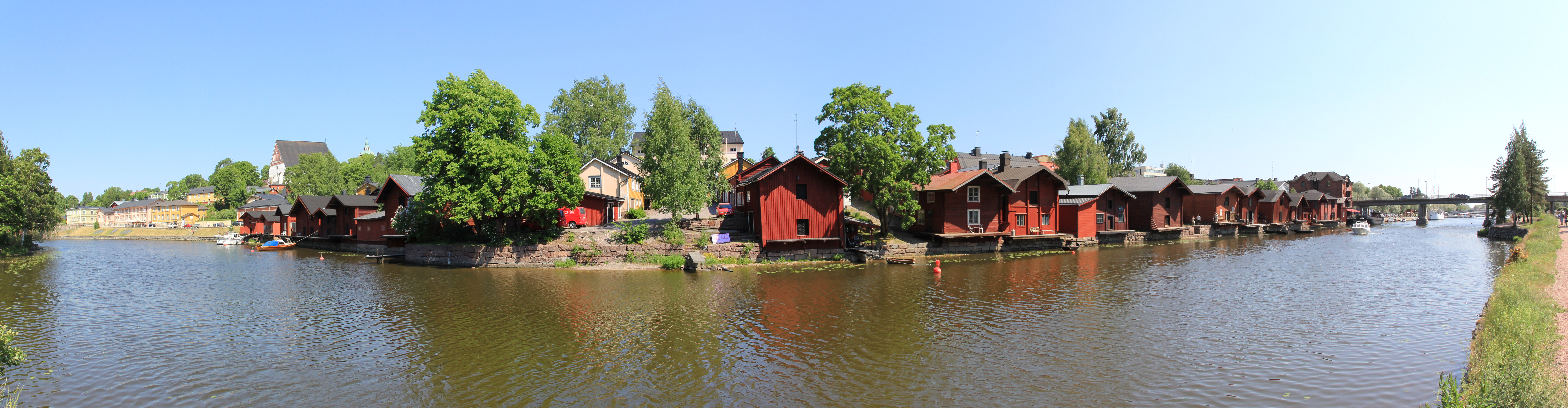 Panoramic view of old warehouses on the shore of Porvoonjoki river.